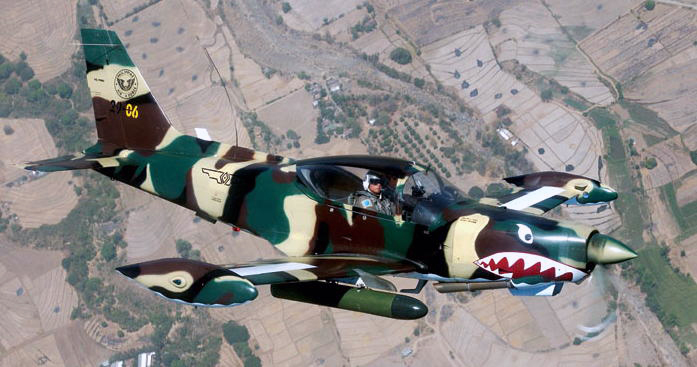 A SF-260 TP light attack aircraft used by the Philippine Air Force (PAF). The 2 hard-points of these aircraft are either fitted with machine gun pods or with the LAU 68 / LAU 131 7-tube launchers (for 70mm/2.75" rockets like the Mighty Mouse FFAR and the Hydra 70) or with bomb racks (for dropping gravity bombs).